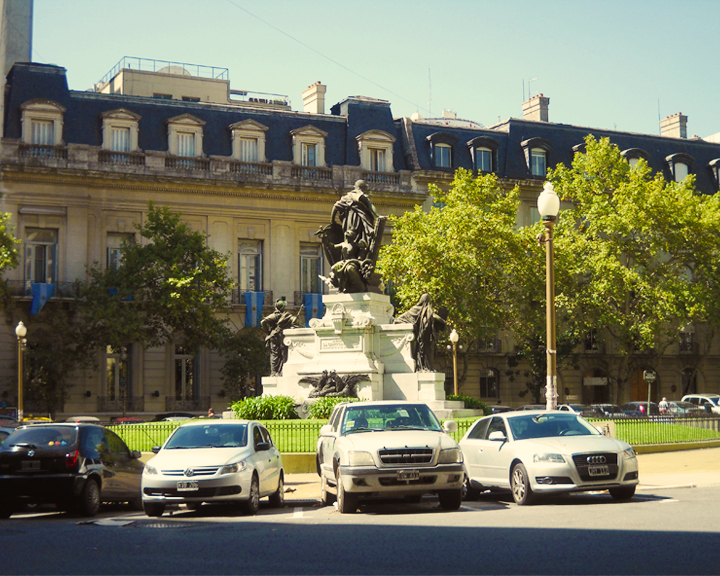 Headquarters of the Argentina Jockey Club, facing Carlos Pellegrini Square, Buenos Aires, Argentina. Located on Alvear 1345 and originally belonging to the Estrugamou family, this building was acquired following the 1953 destruction of the original headquarters by a Peronist mob. It was modified by architect Alejandro Bustillo, reinaugurated in 1968, and expanded in 1981 with the addition of an adjoining mansion formerly owned by the Sánchez Elía family.